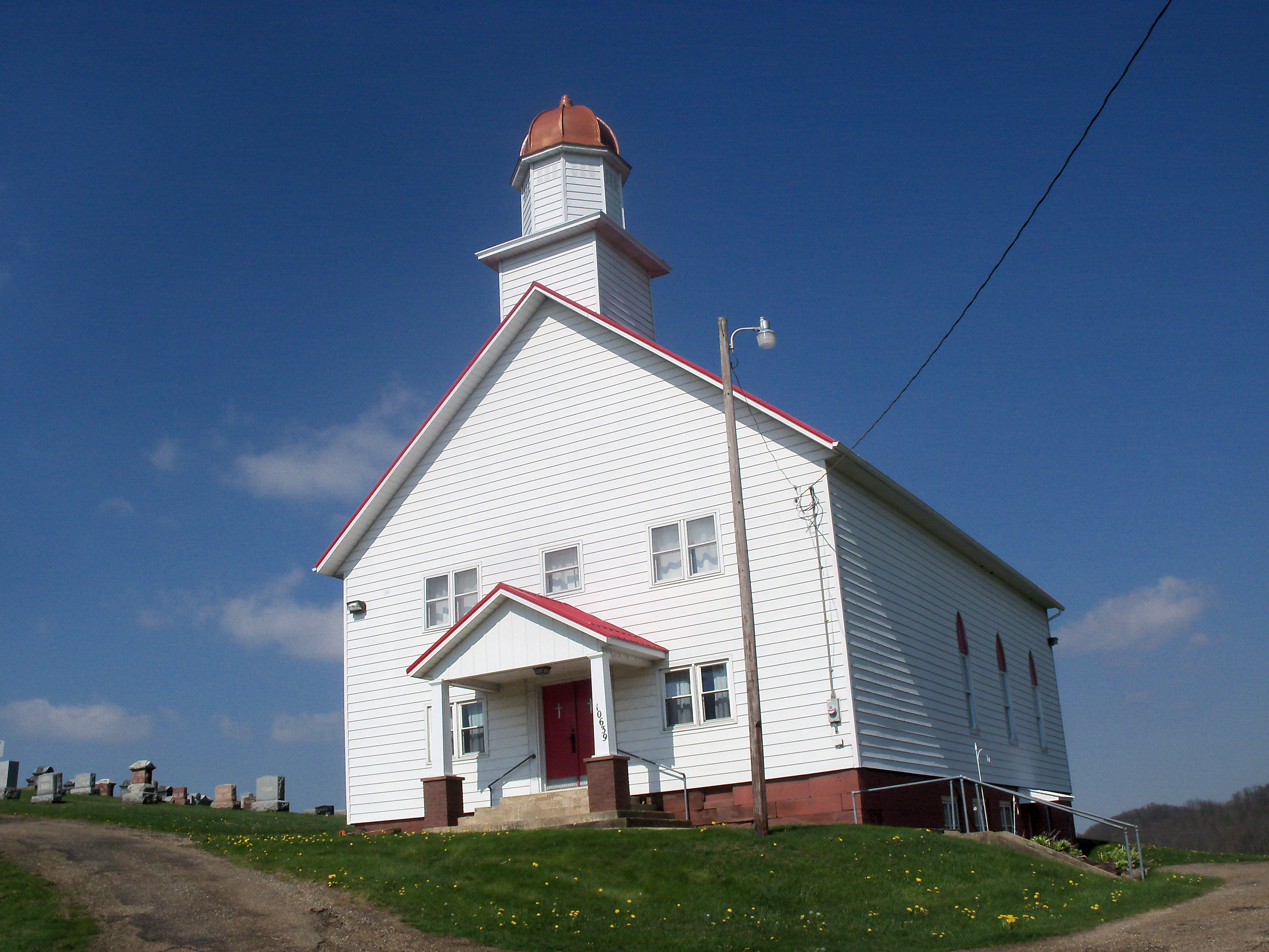 St. Peters United Church of Christ (1888) in Fiat, Ohio, a place that once existed in Bucks Township, Tuscarawas County, Ohio